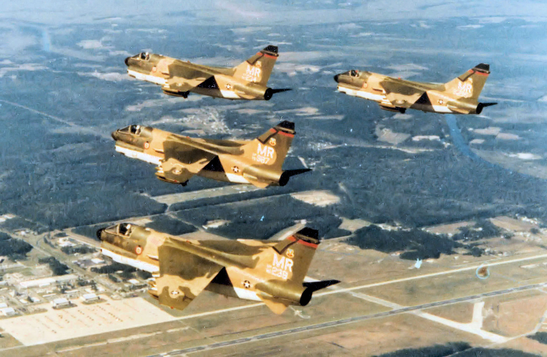 Formation of LTV A-7Ds (S/N 71-234, 70-0987, 71-239 and 71-235) of the 353d Tactical Fighter Squadron, 354th Tactical Fighter Wing, over Myrtle Beach Air Force Base, S.C. September 1971. (U.S. Air Force photo)